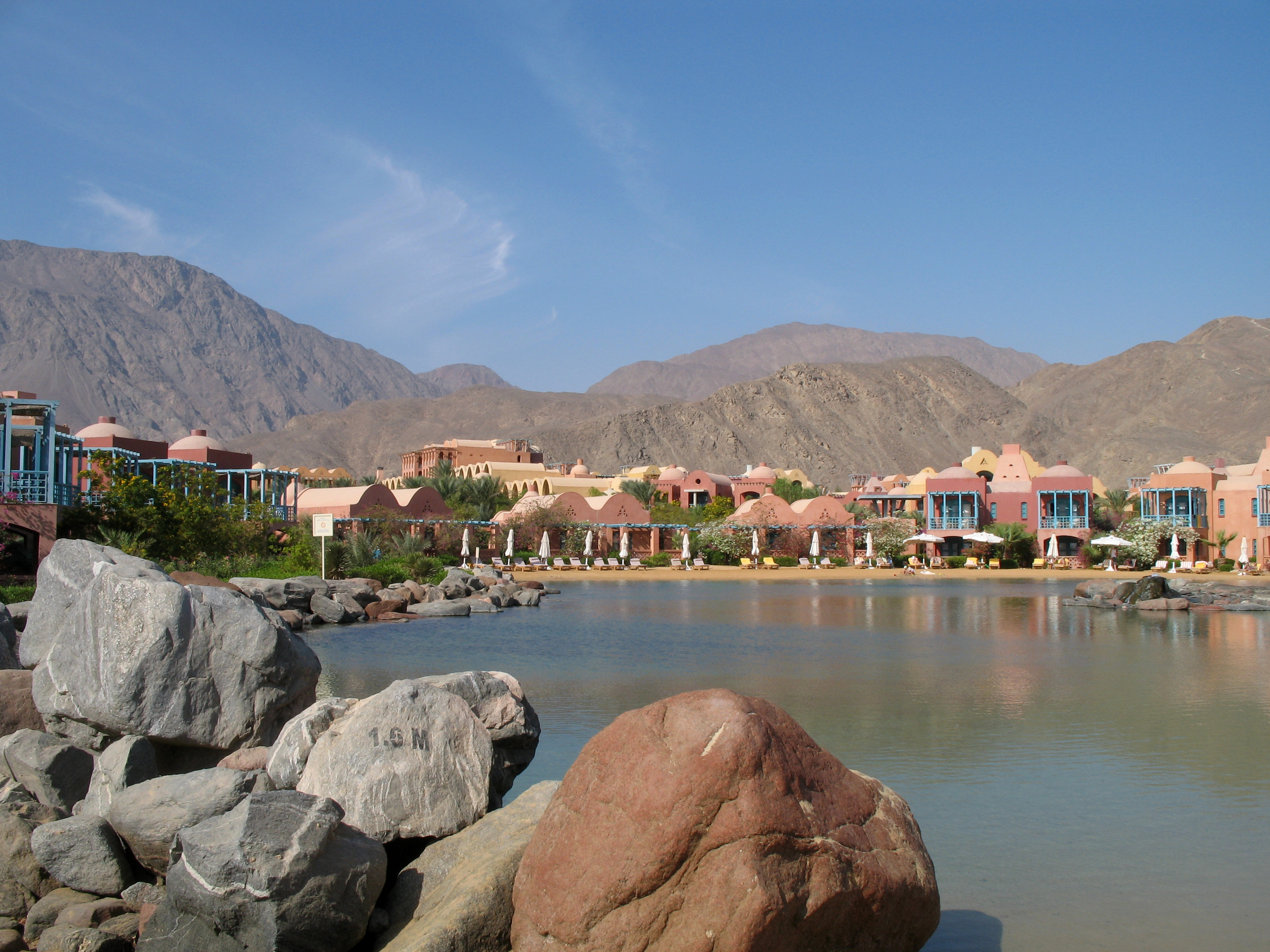 Taba Heights (Sinai, Egypt)